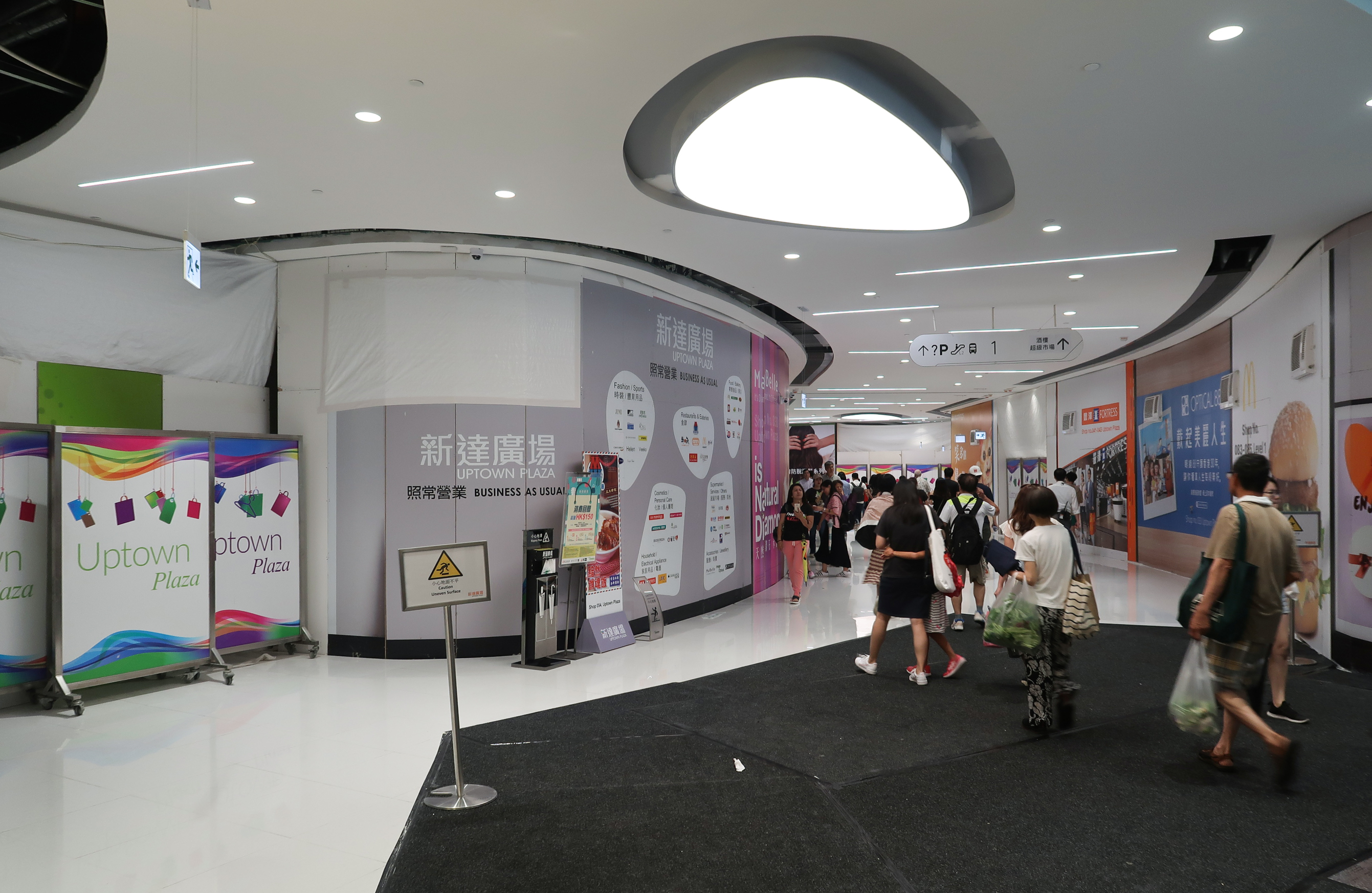 Uptown Plaza under renovation